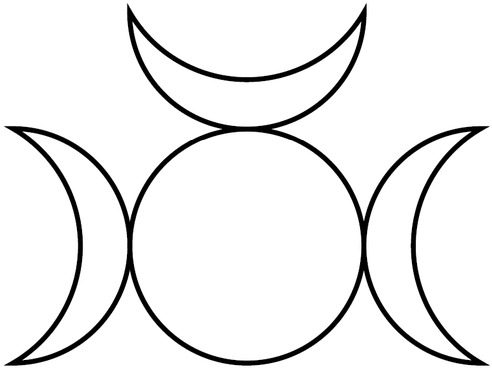 A symbol often used in Wicca to represent the union of the goddess and the god.